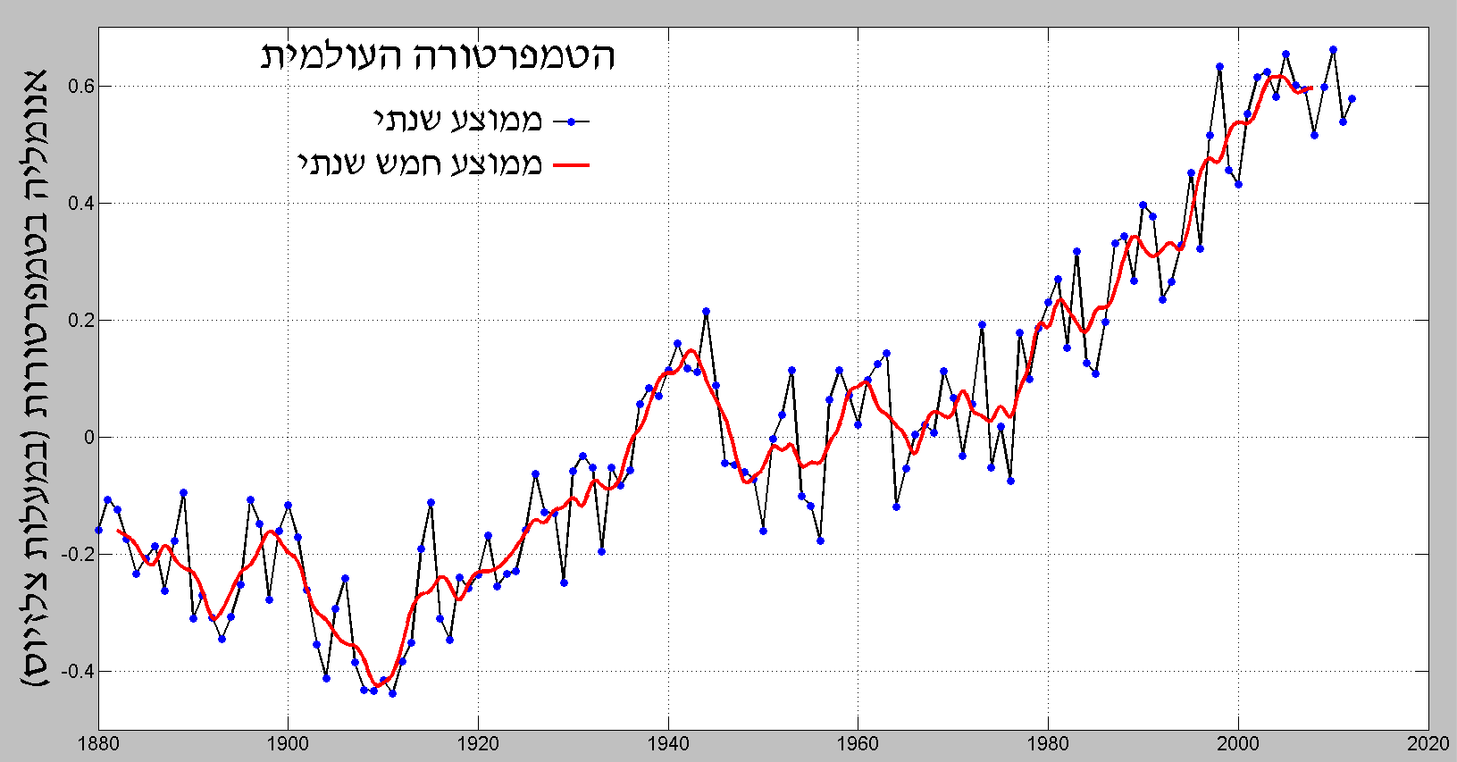 Instrumental Temperature Record